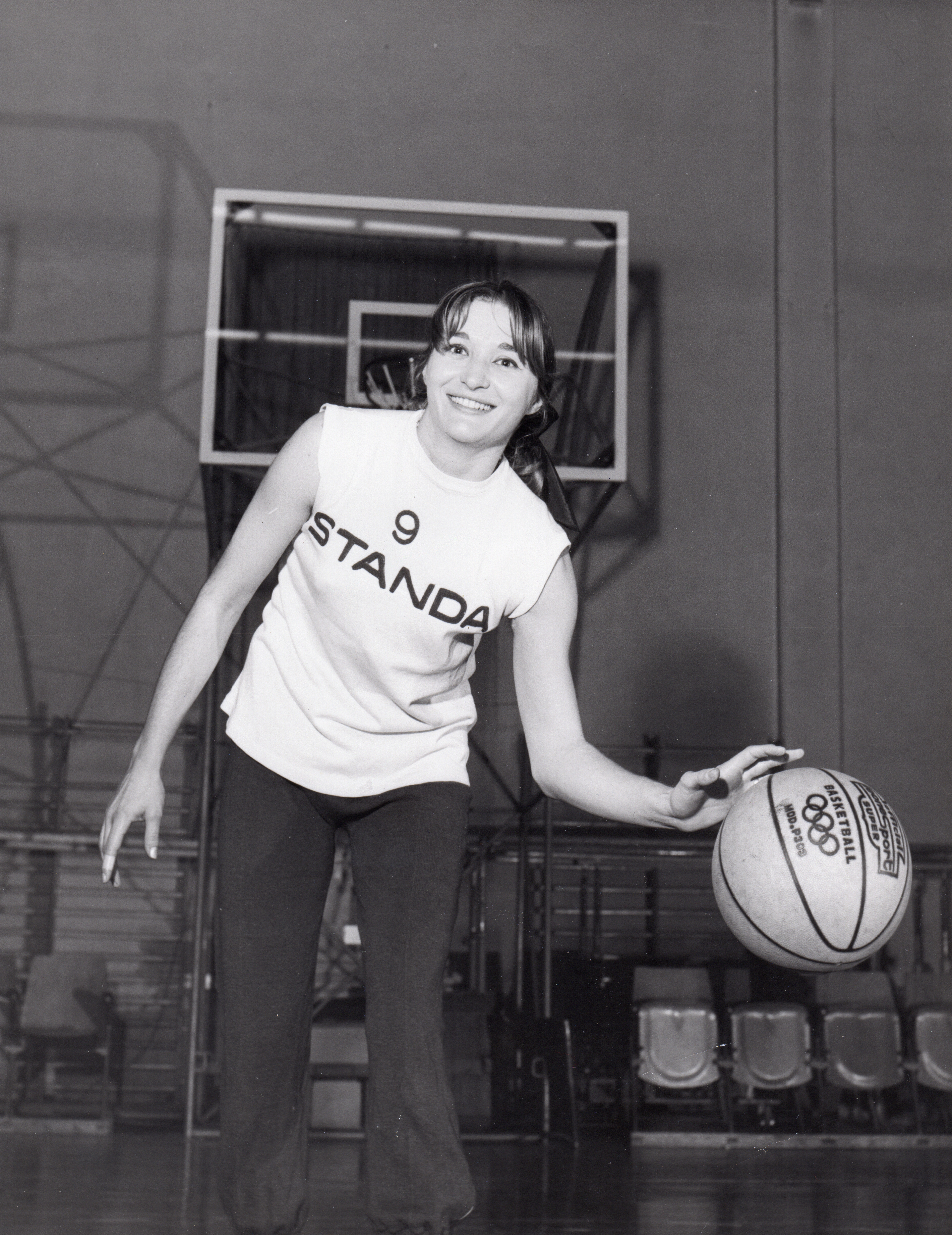 Maria Pia Mapelli